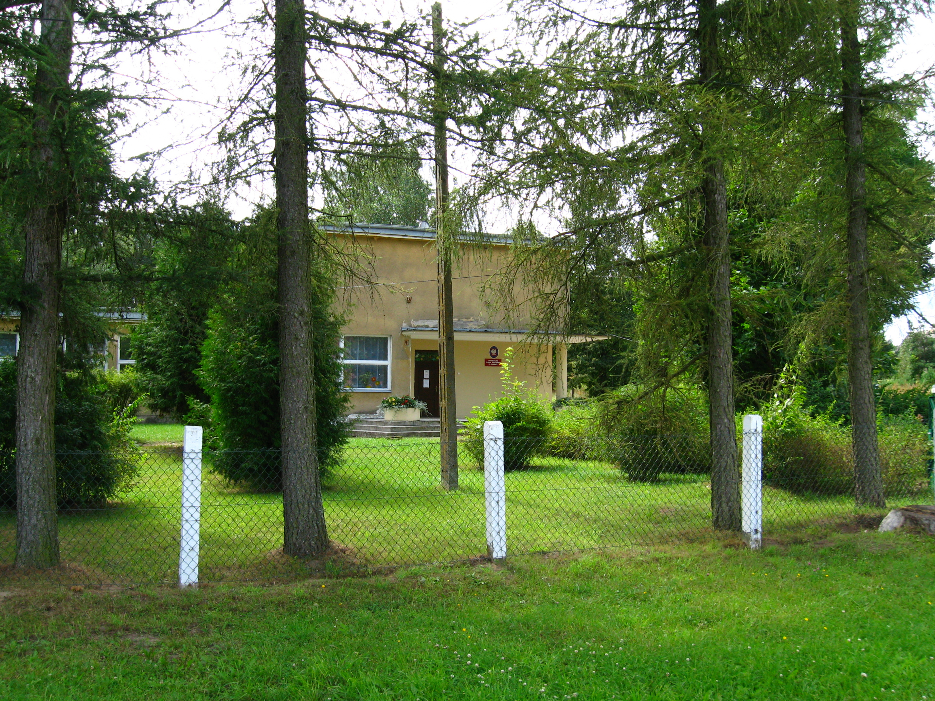 School at Załuki village, gmina Gródek